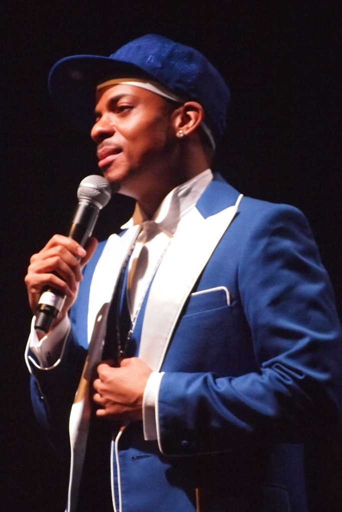 JERO @ Japan Society - 6/8/2012 - 18